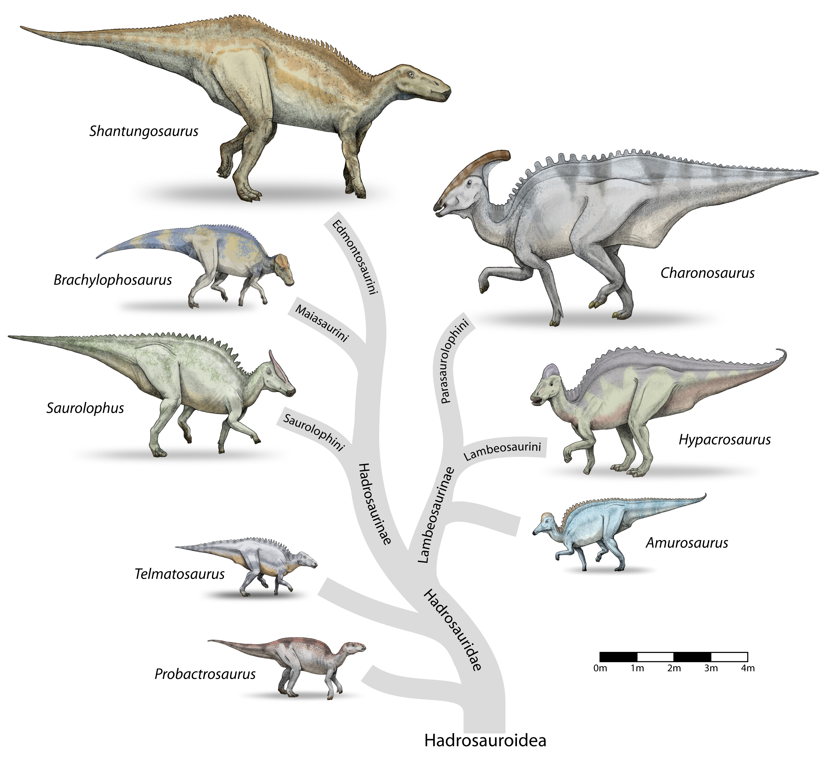 drawing by me user debivort June 07